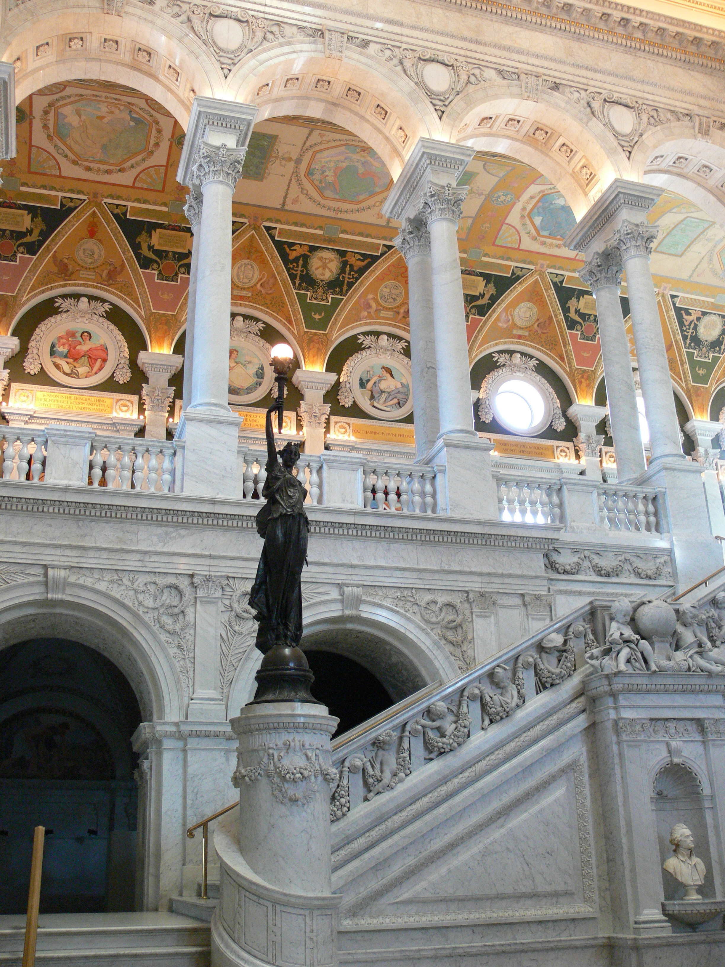 Great Hall, Library of Congress (Jefferson Building), Washington, D.C.